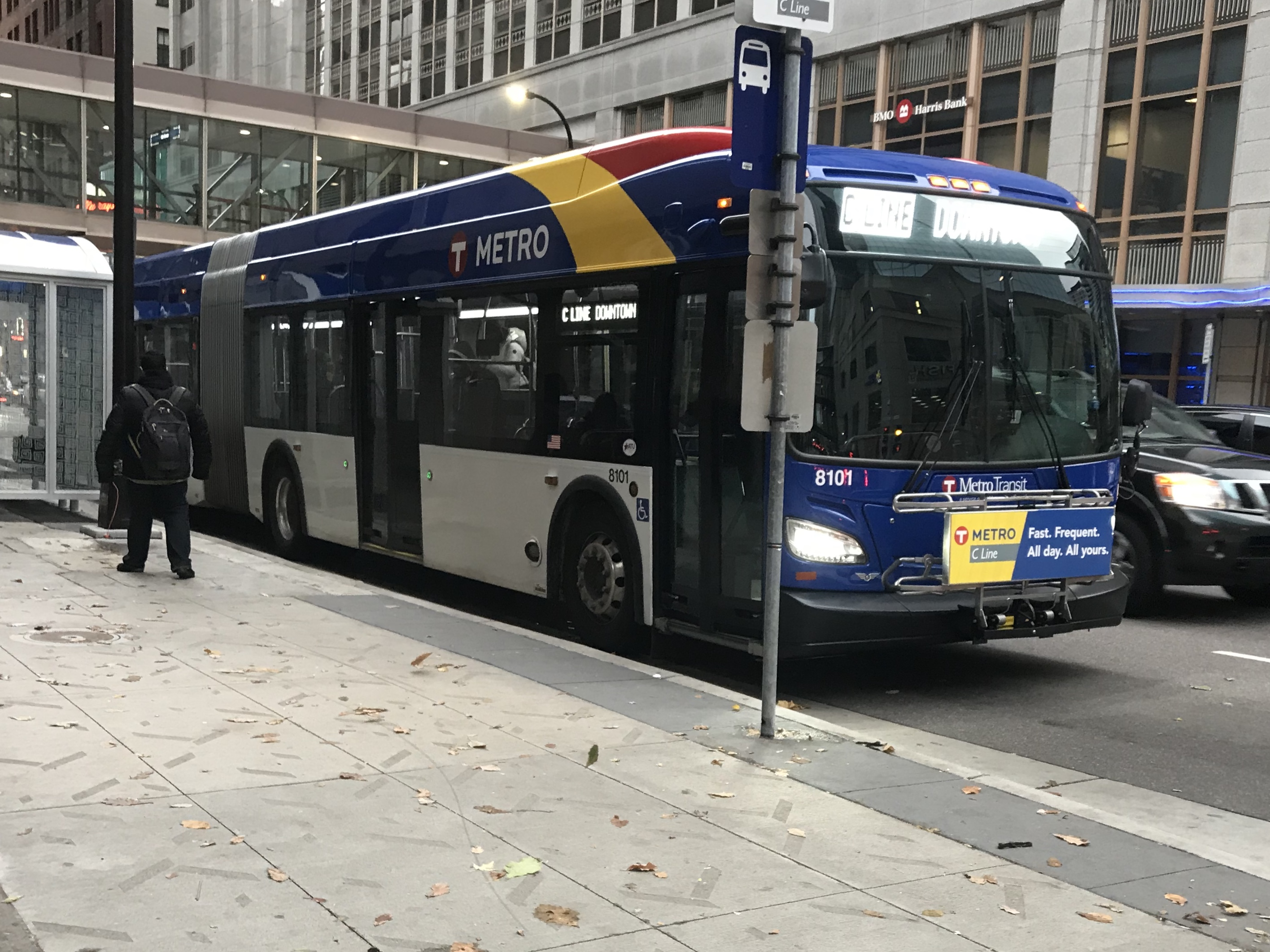 A southbound C Line bus at 6th Street and Nicollet Mall in 2019. This is a 60-foot diesel bus from New Flyer.